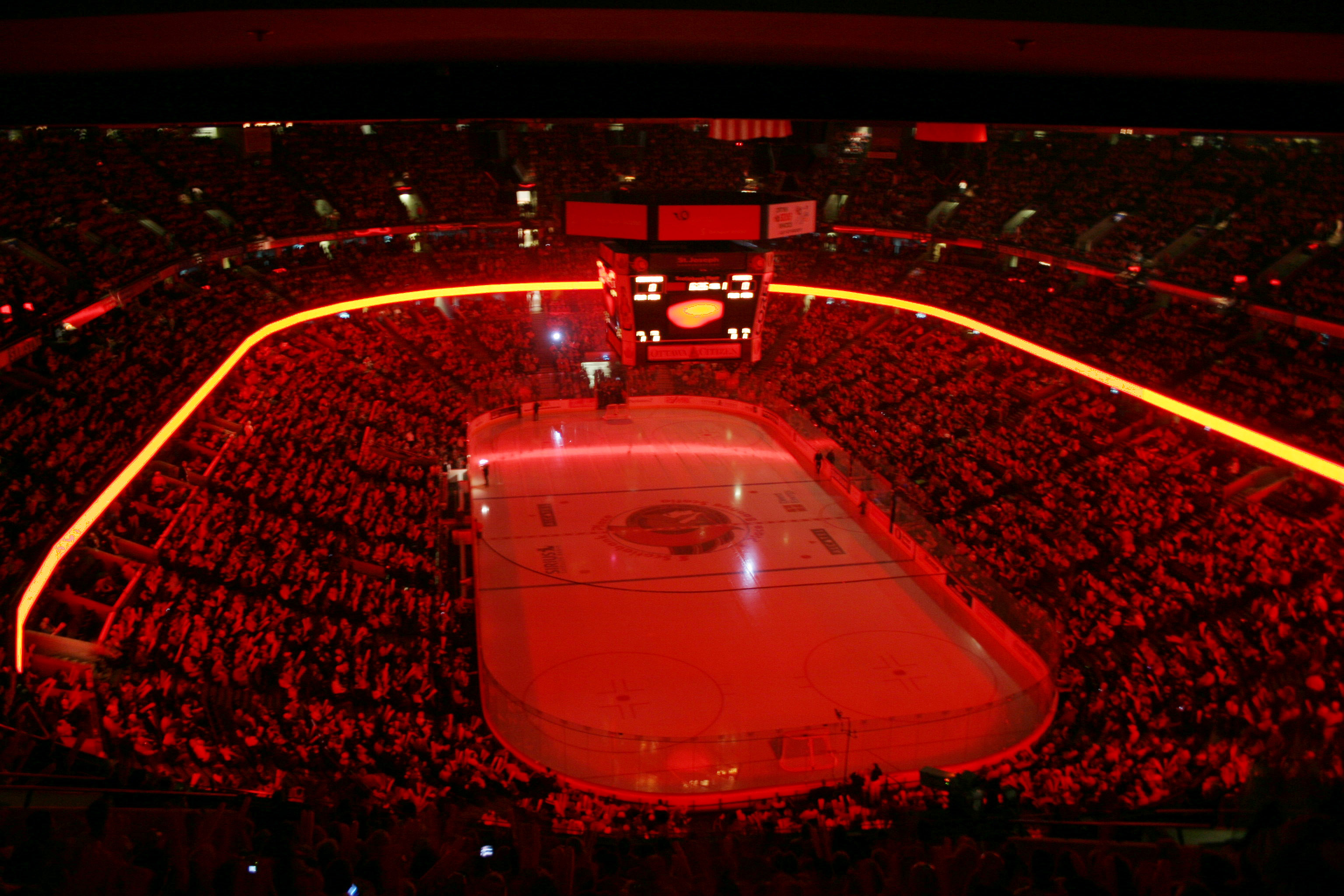 Ottawa lost against Buffalo and they got eliminated from the playoffs. The ambiance at the Bank was just incredible!